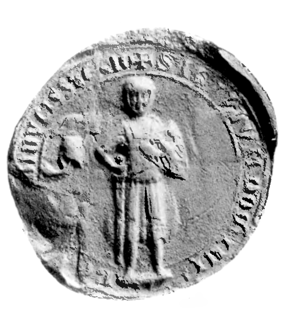 Bernard Zwinny seal